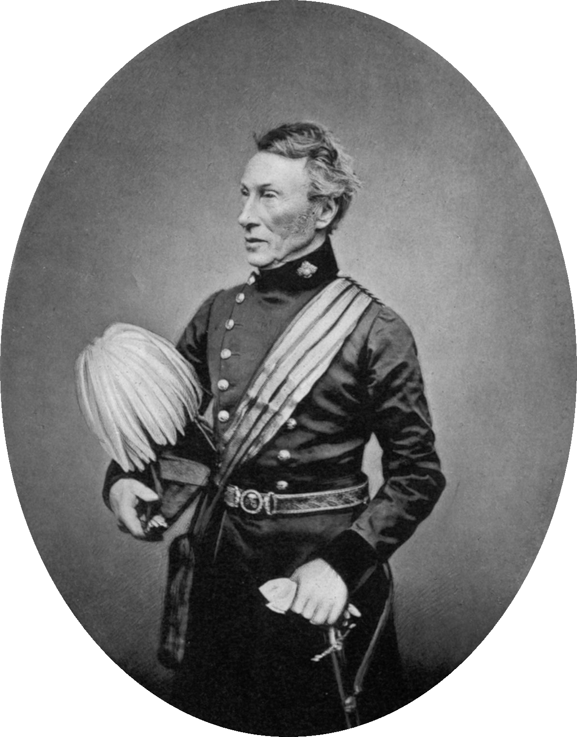 Portrait photograph of General Francis Rawdon taken from the frontispiece of his biography "The Life of the late General F.R. Chesney", by Louise Chesney and Jane O'Donnell, edited Stanley Lane-Poole, Publisher: W.H. Allen, 1885.